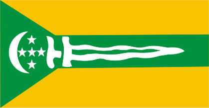 Sultanate of Jolo or Sulu (modern flag)